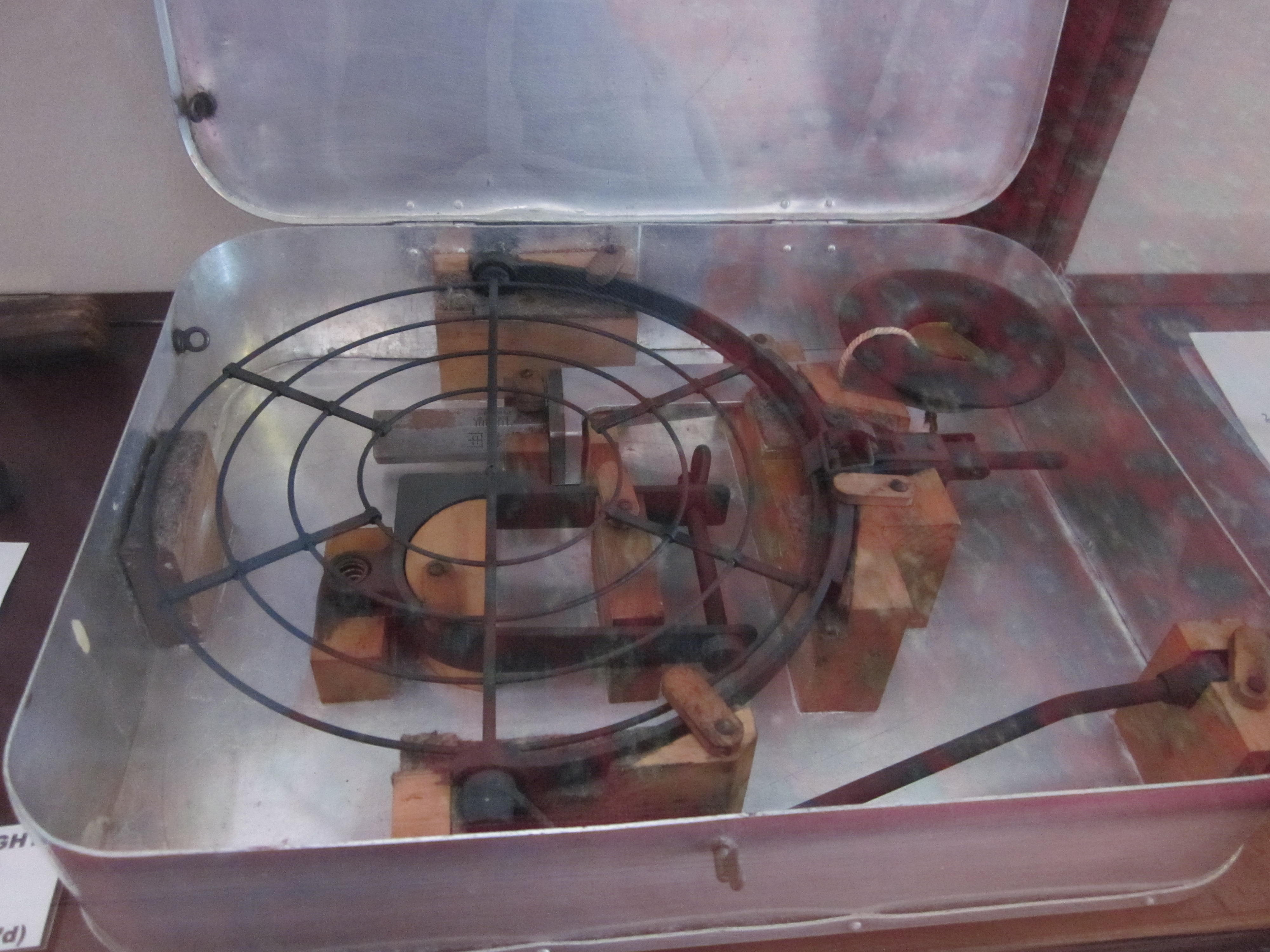 A Japanese anti-aircraft gunsight from Peleliu on display at the Marines' Memorial Hotel in San Francisco, California. According to the "Handbook on Japanese military forces", Page 283, it belongs to a Type 92 7.7 mm machinegun.